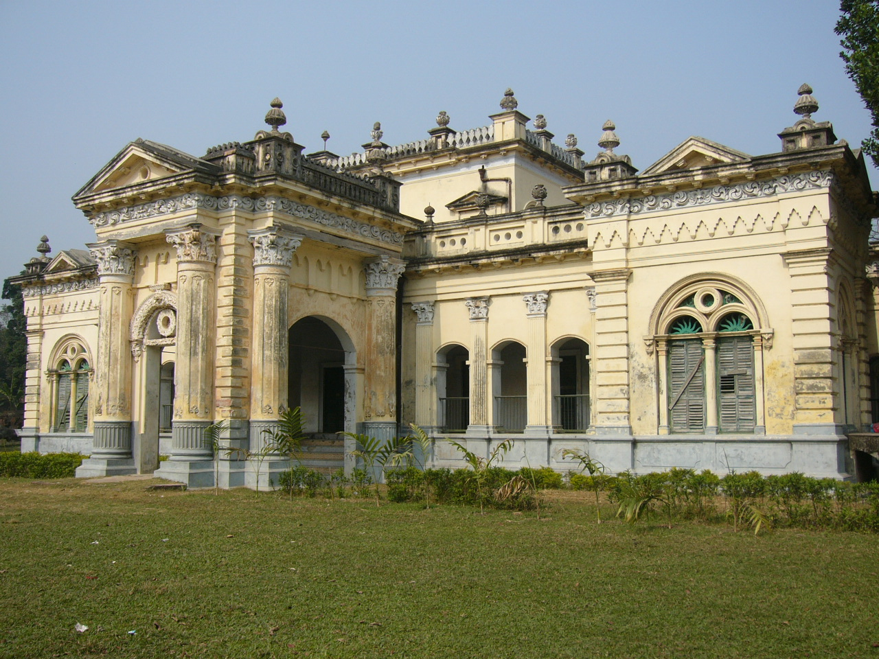 Natore, A District of Bangladesh Authour Shahnoor Habib Munmun